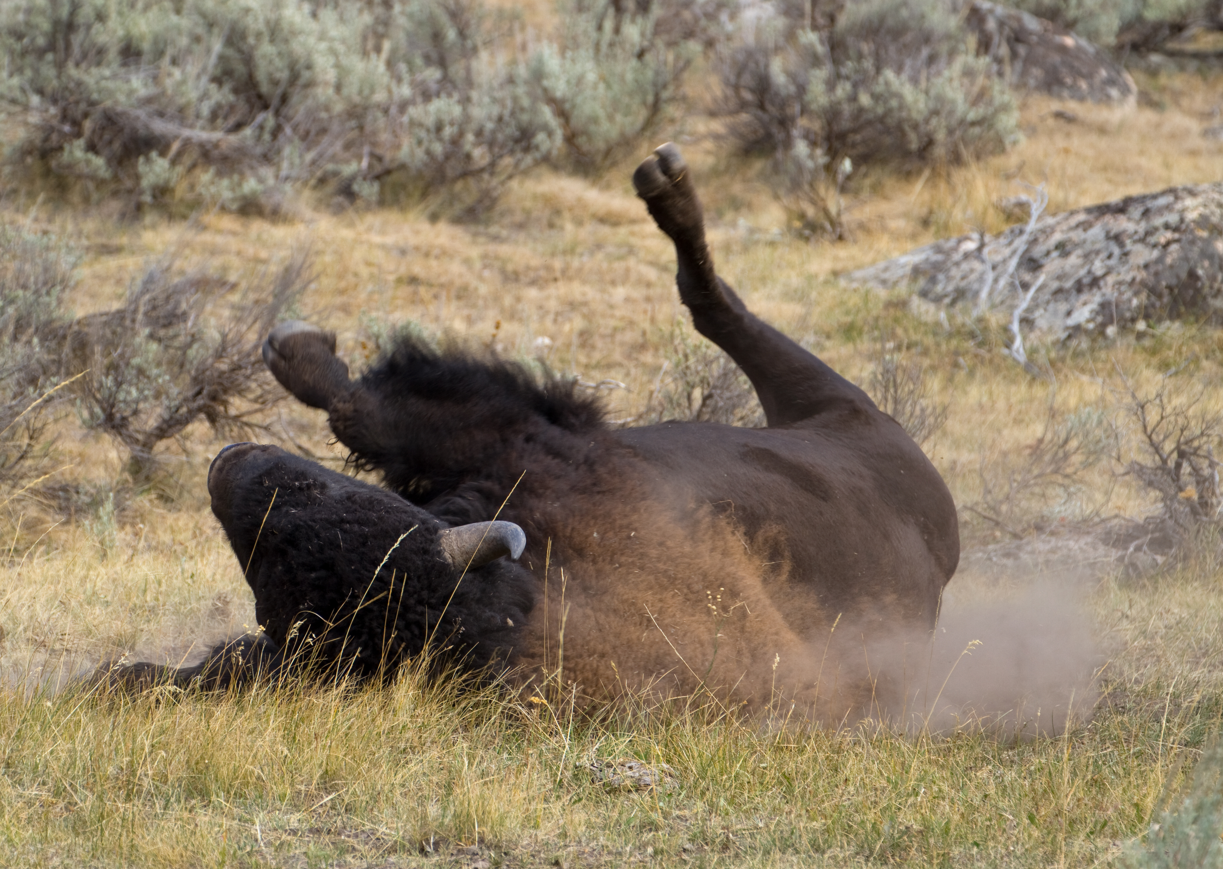 Bison 2